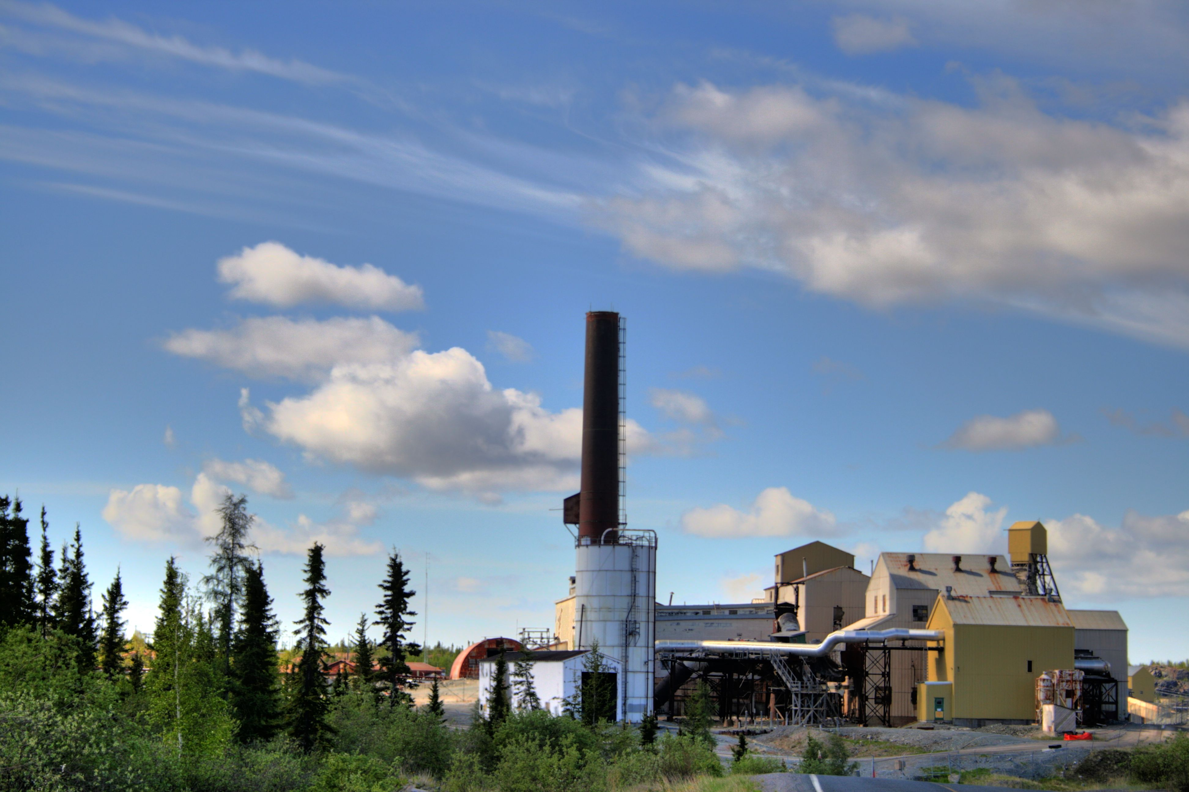 Some buildings on the site of Giant Mine, Yellowknife, Northwest Territories, Canada.